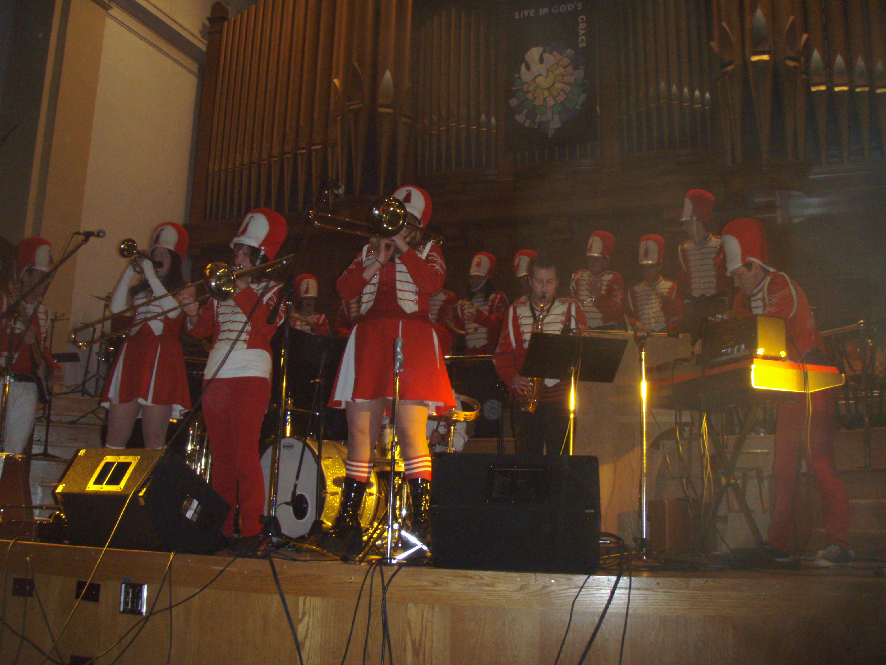 The Wet Secrets on stage in 2007.